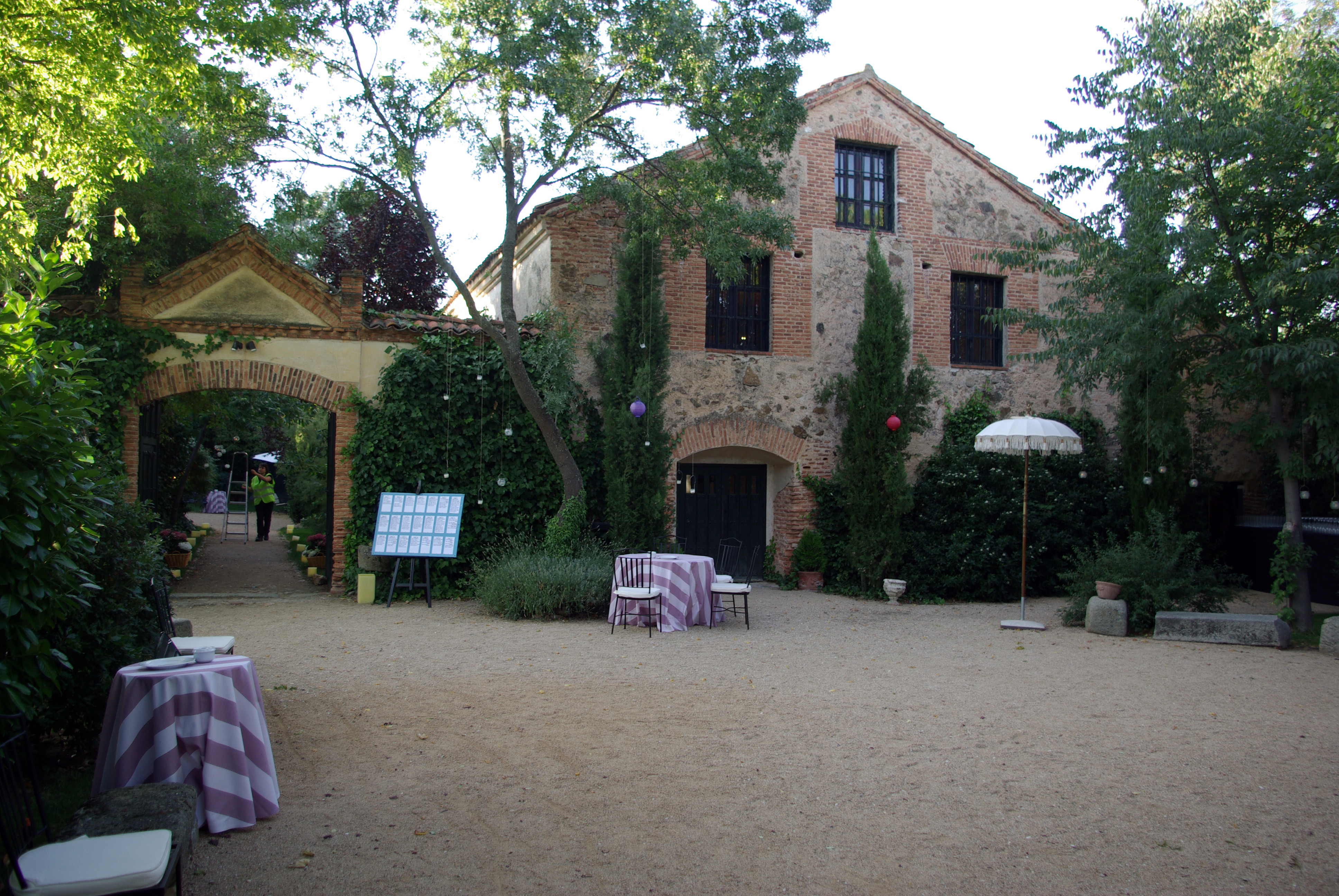 Sheep shearing shed in Cabanillas del Monte, Torrecaballeros (Segovia, Spain).